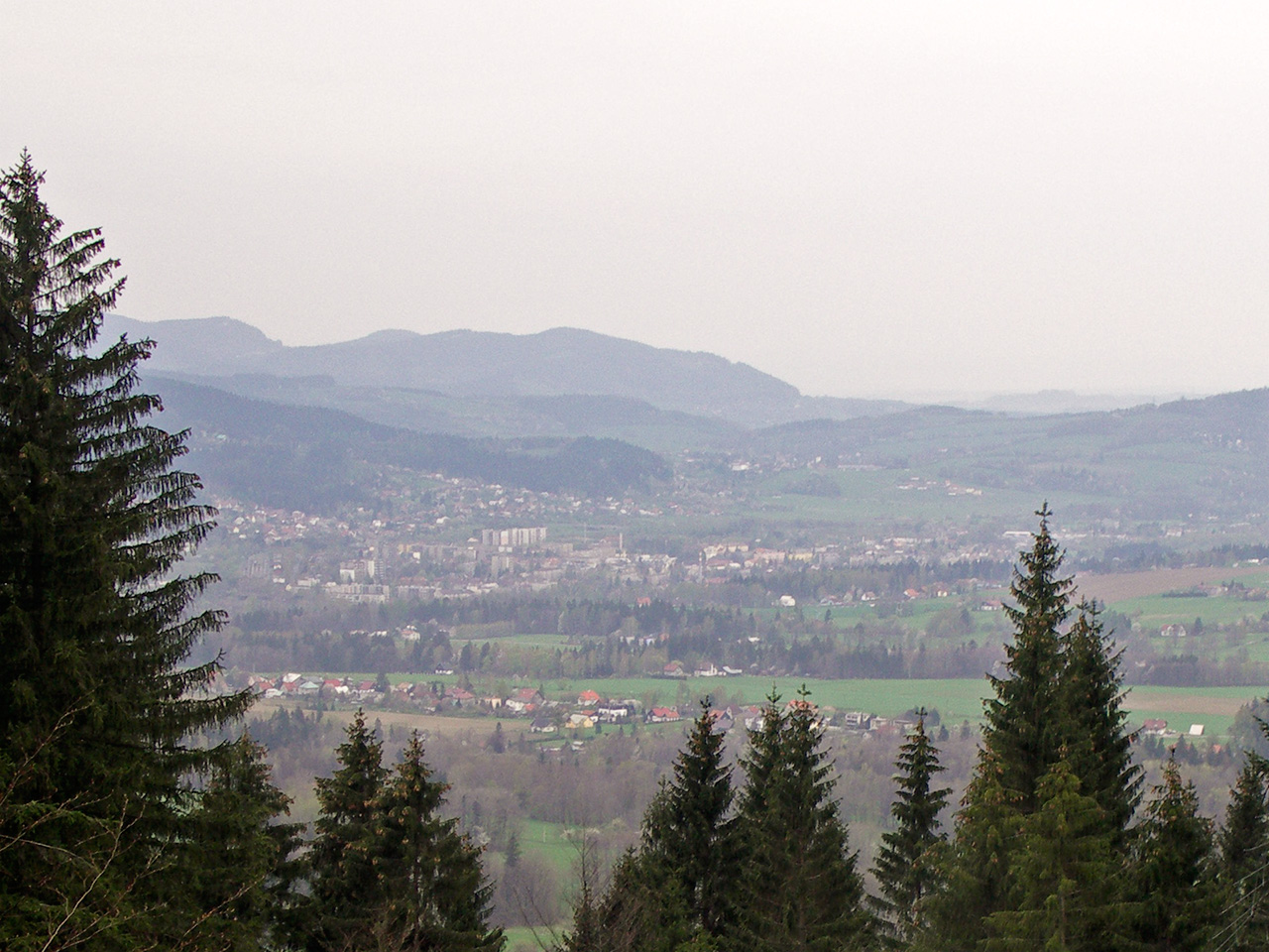 The town of Frýdlant nad Ostravicí in Czechia from Lysá hora